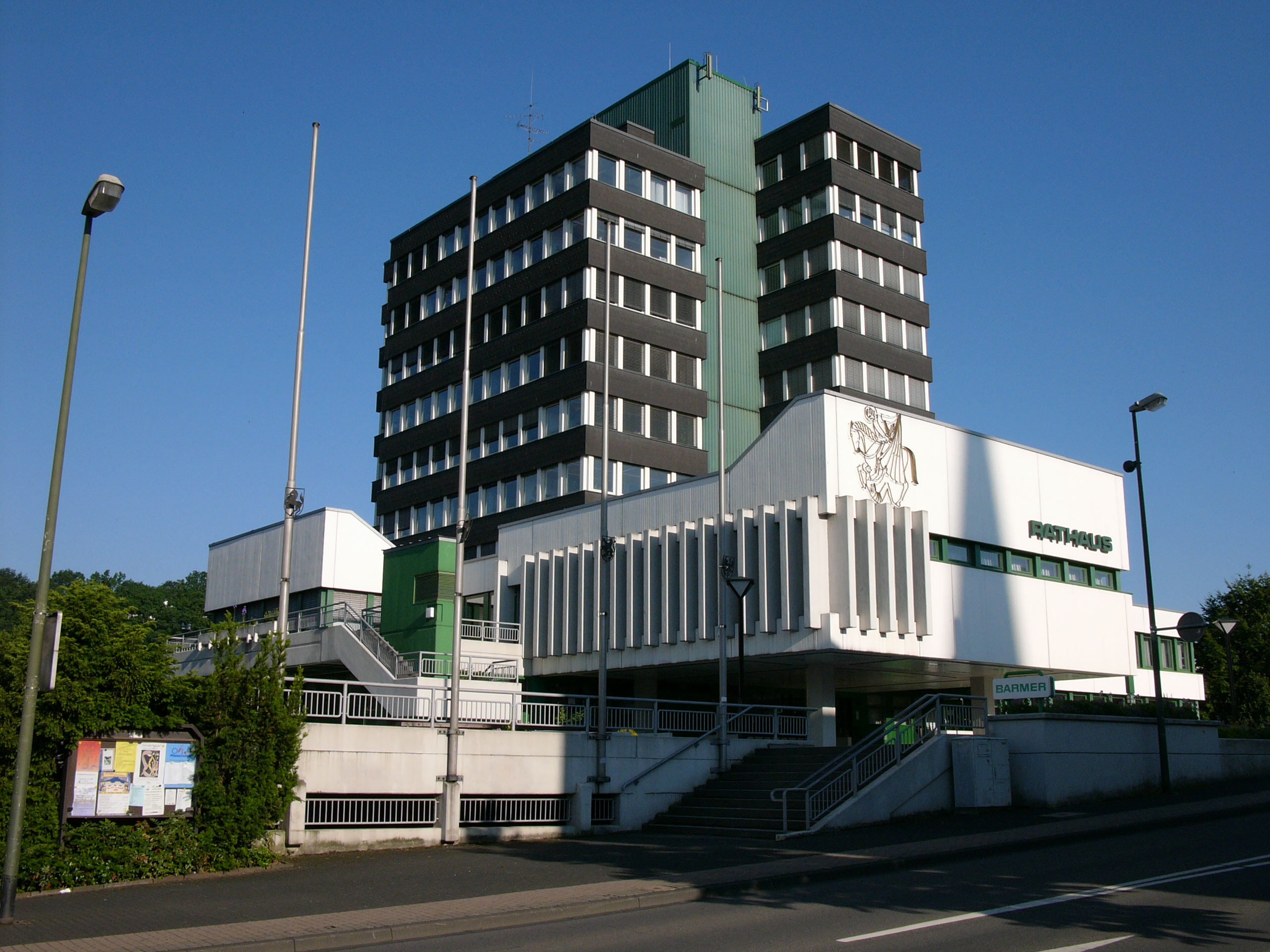 City hall of Olpe, new building. Houses library. Some of the upper floors have been rented to an insurance company.